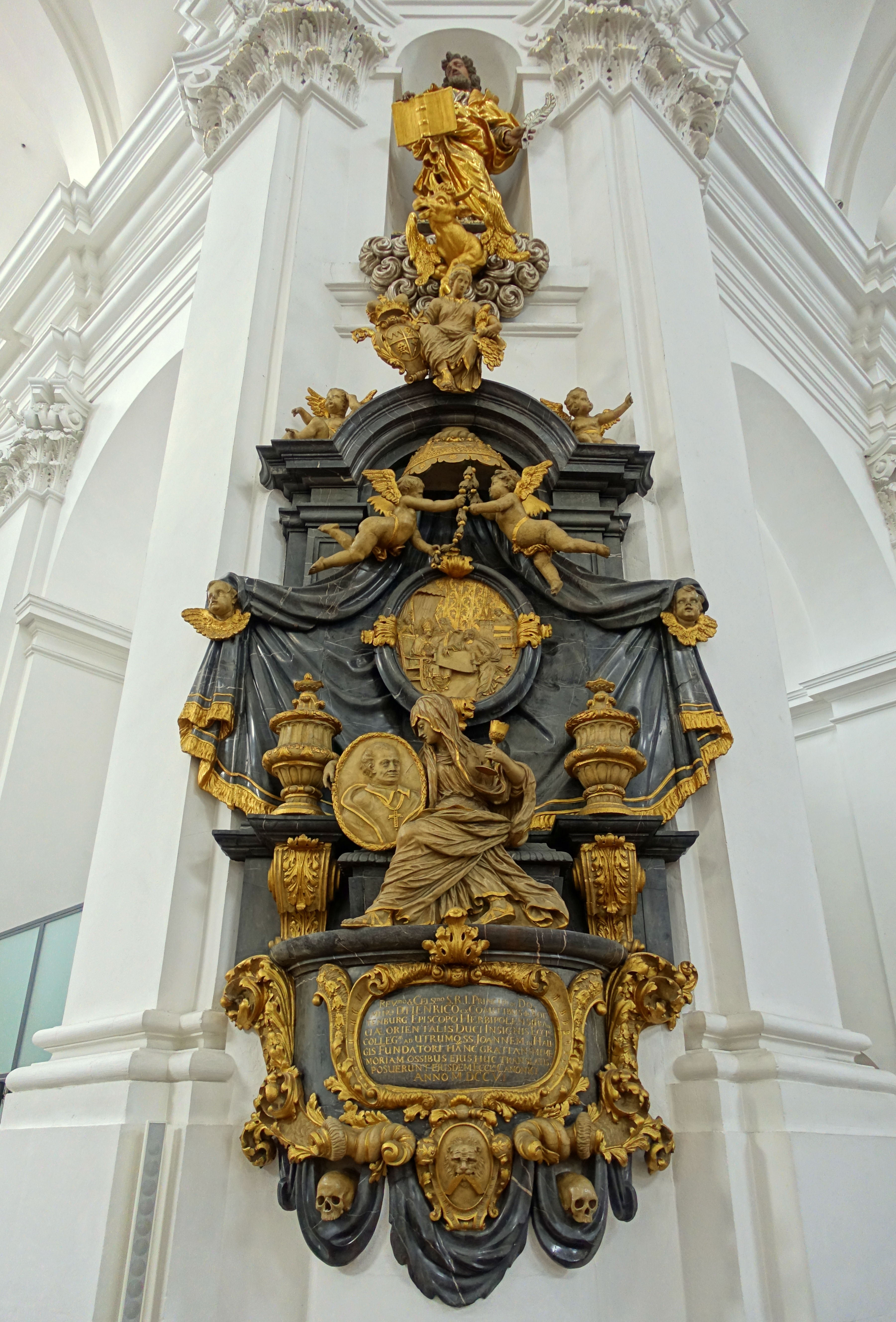 Interior of Stift Haug - Würzburg, Germany.